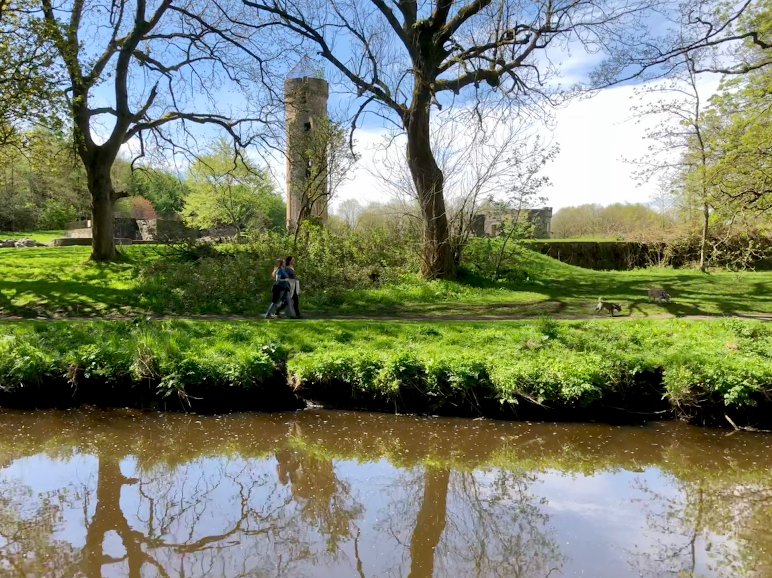 View across the Lugton Water to the ruins of Eglinton Castle in Eglinton Country Park